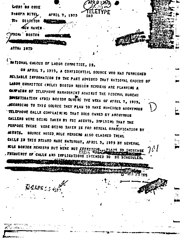 Teletype: To Director and New Haven from Boston, April 7, 1975